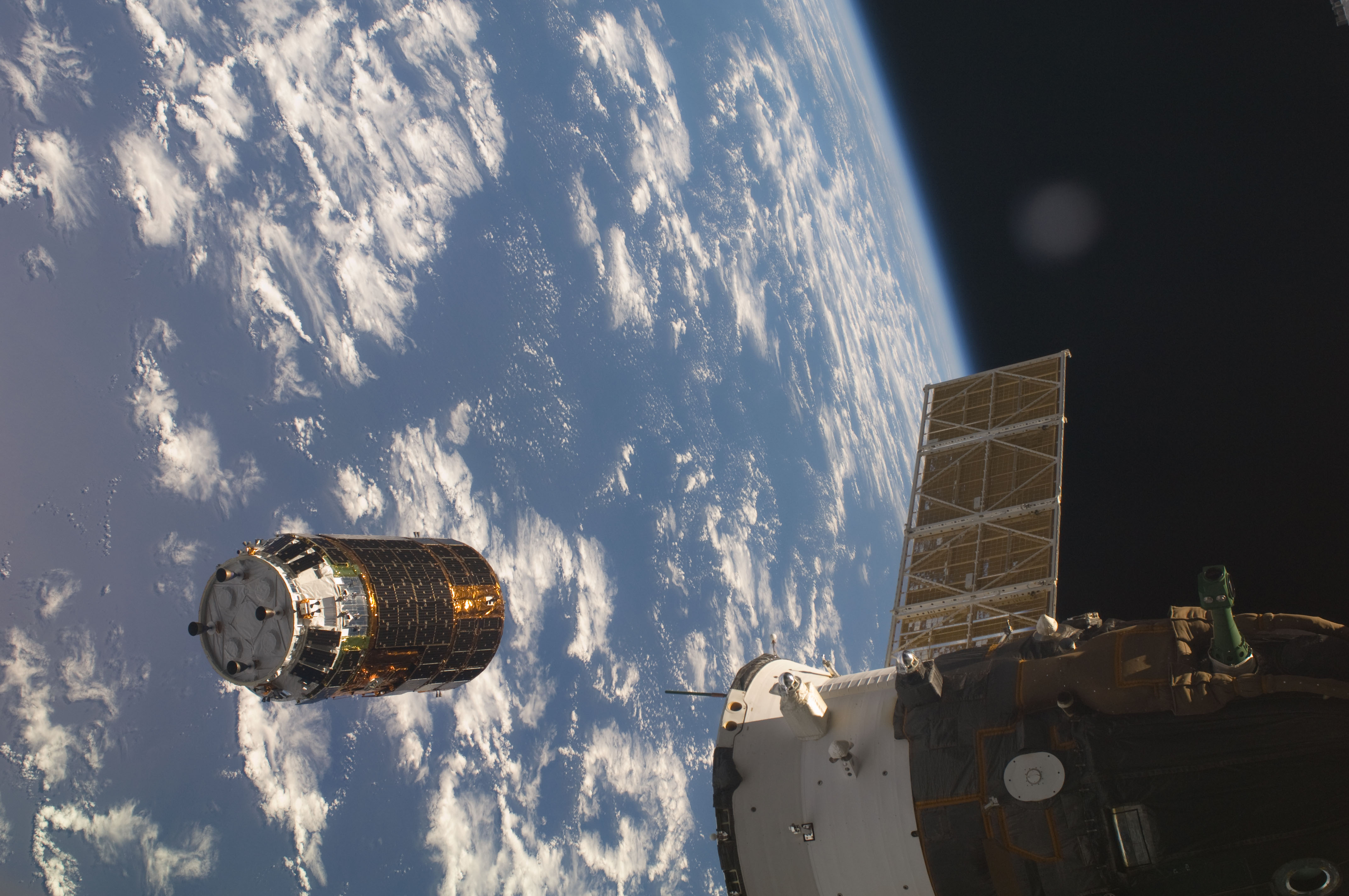 Backdropped by a blue and white part of Earth and the blackness of space, the unpiloted Japanese H-II Transfer Vehicle (HTV) approaches the International Space Station. Once the HTV was in range, NASA astronaut Nicole Stott, Canadian Space Agency astronaut Robert Thirsk and European Space Agency astronaut Frank De Winne, all Expedition 20 flight engineers, used the station's robotic arm to grab the cargo craft and attach it to the Earth-facing port of the Harmony node. The attachment was completed at 5:26 (CDT) on Sept. 17, 2009. A Russian spacecraft docked to the station is at bottom right.